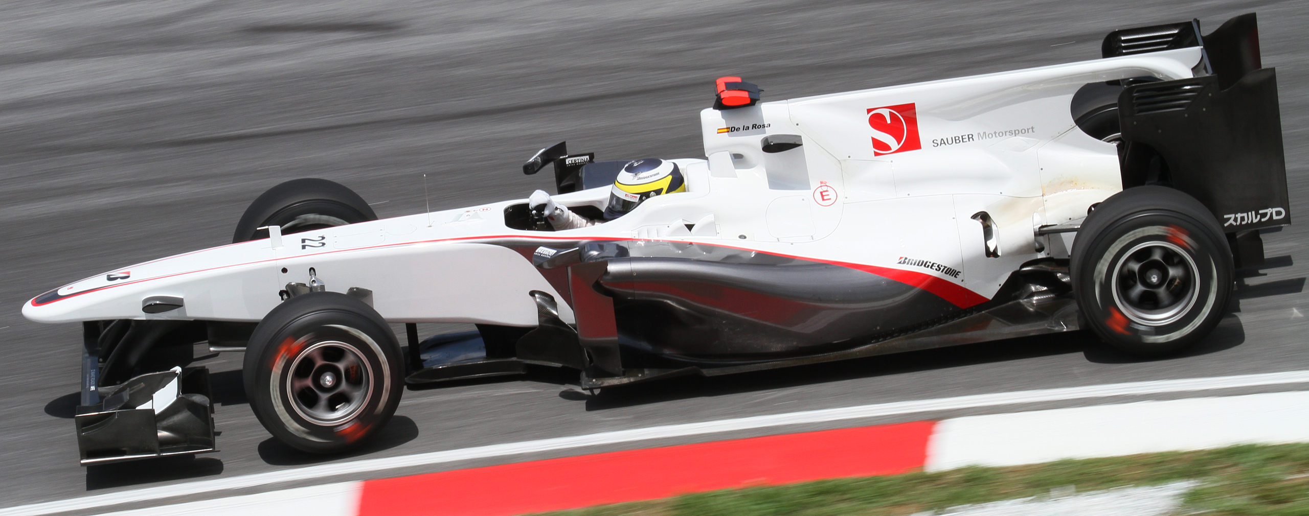 Formula One 2010 Rd.3 Malaysian GP: Pedro de la Rosa (BMW Sauber) during Friday 2nd Free Practice session.